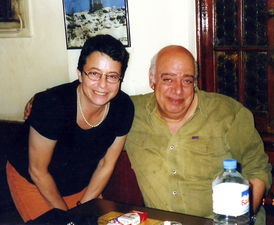 A meeting in Cairo between Salem and representative of Mothers and Women for Peace from Israel